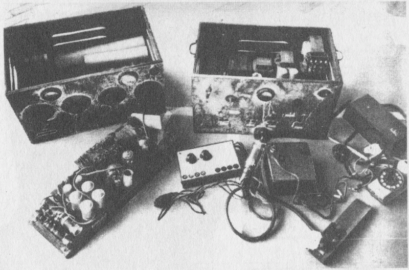 One of the illegal radiostations "Sparta", which was used by the Czechoslovak resistance movement in the Protectorate (during WWII). This types of radios were used for connections the domestic resistance movement with the government of Dr. Edvard Beneš in exile in London. This is probably the photo (created by the Gestapo before 1945) as the evidence of illegal activity of the arrested people. This photo was made for purpose of the investigative case files.